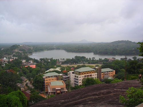 Author = Asanka Herath [1] Obtained from Flickr [2] Permission granted by the author and was obtained via e-mail contact. See below, I think for images posted to Wikipedia, the best option is to use both (multi-license) GFDL and CC-by-SA. So I'd go with that. Asanka Herath Kurunegala Lake, Kurunegala, Sri Lanka